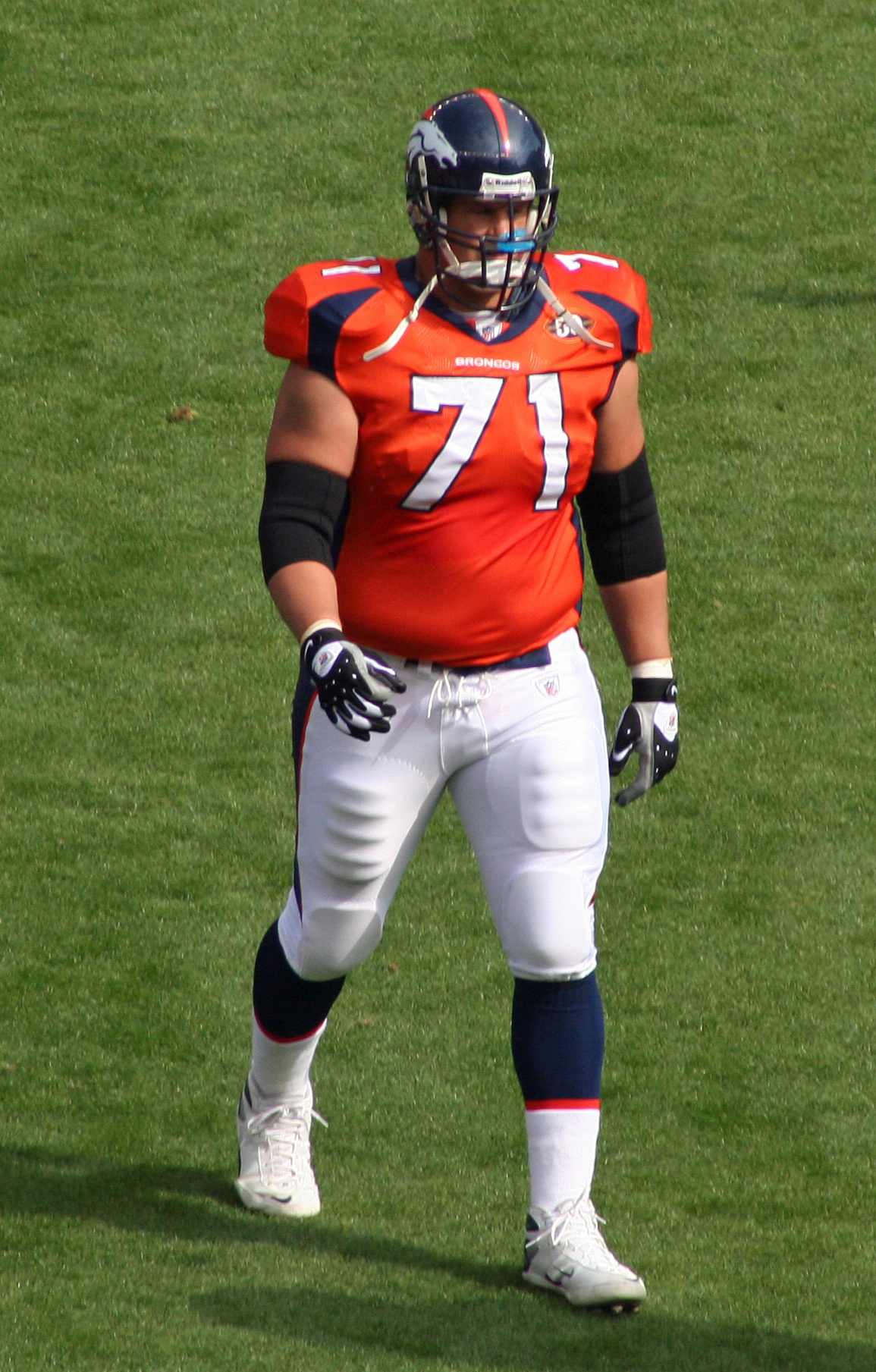 Russ Hochstein, a player with the Denver Broncos American football team.